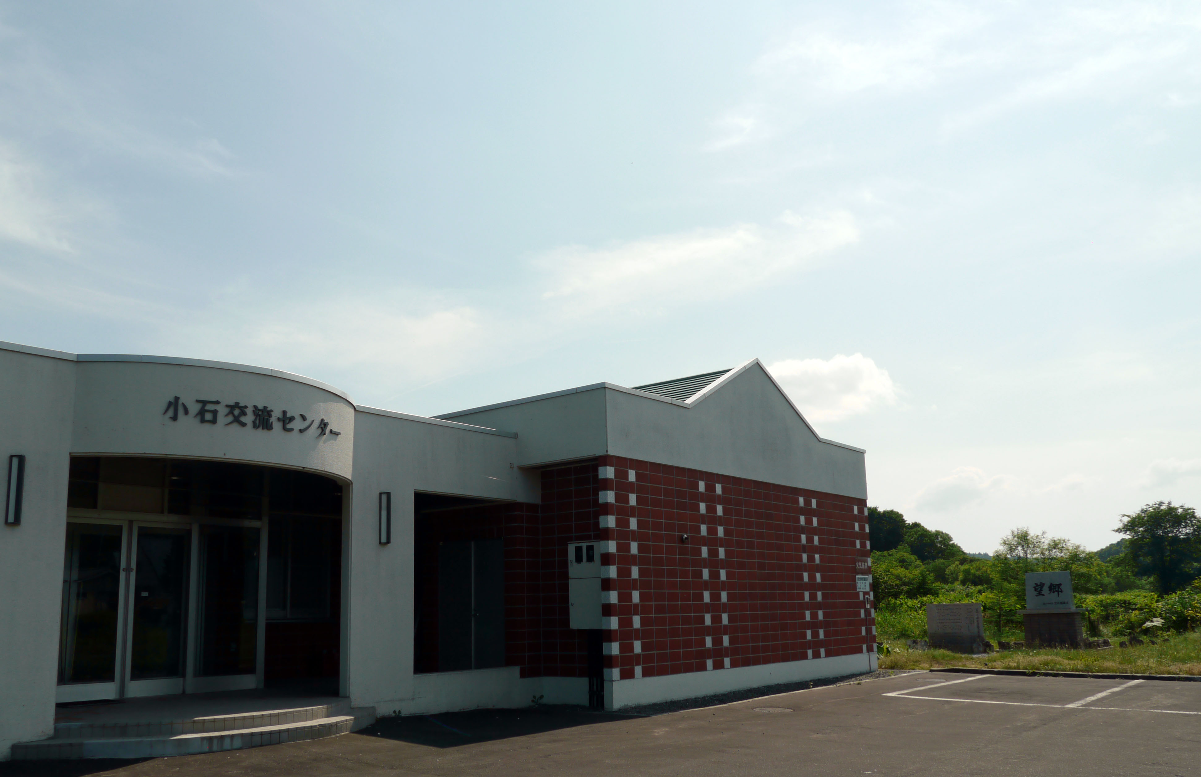 The remains of Koishi Station of the Tenpoku Line in Hokkaido, Japan. Photo taken on August 4, 2011.